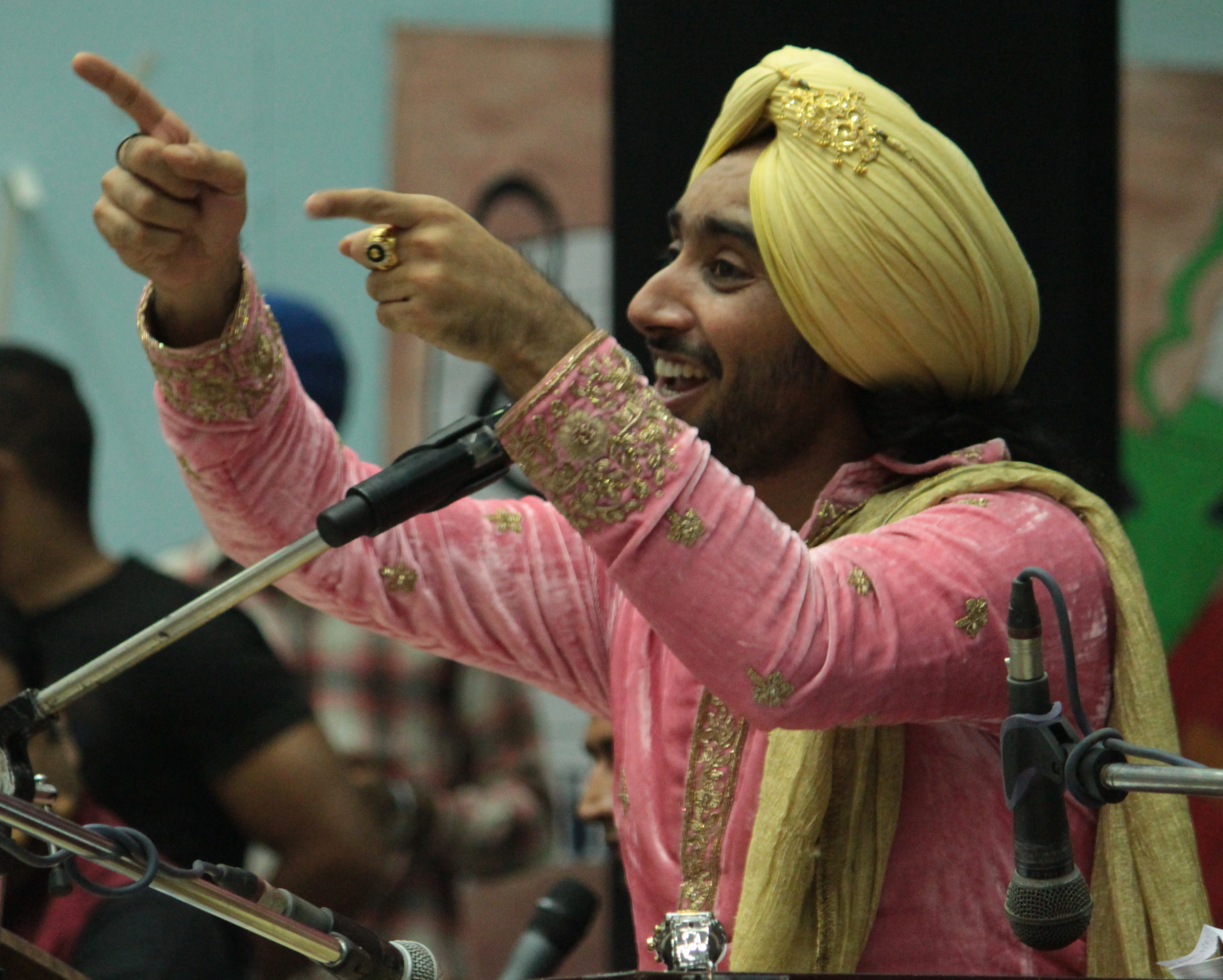 Sartaaj performing at Punjabi University,Patiala.